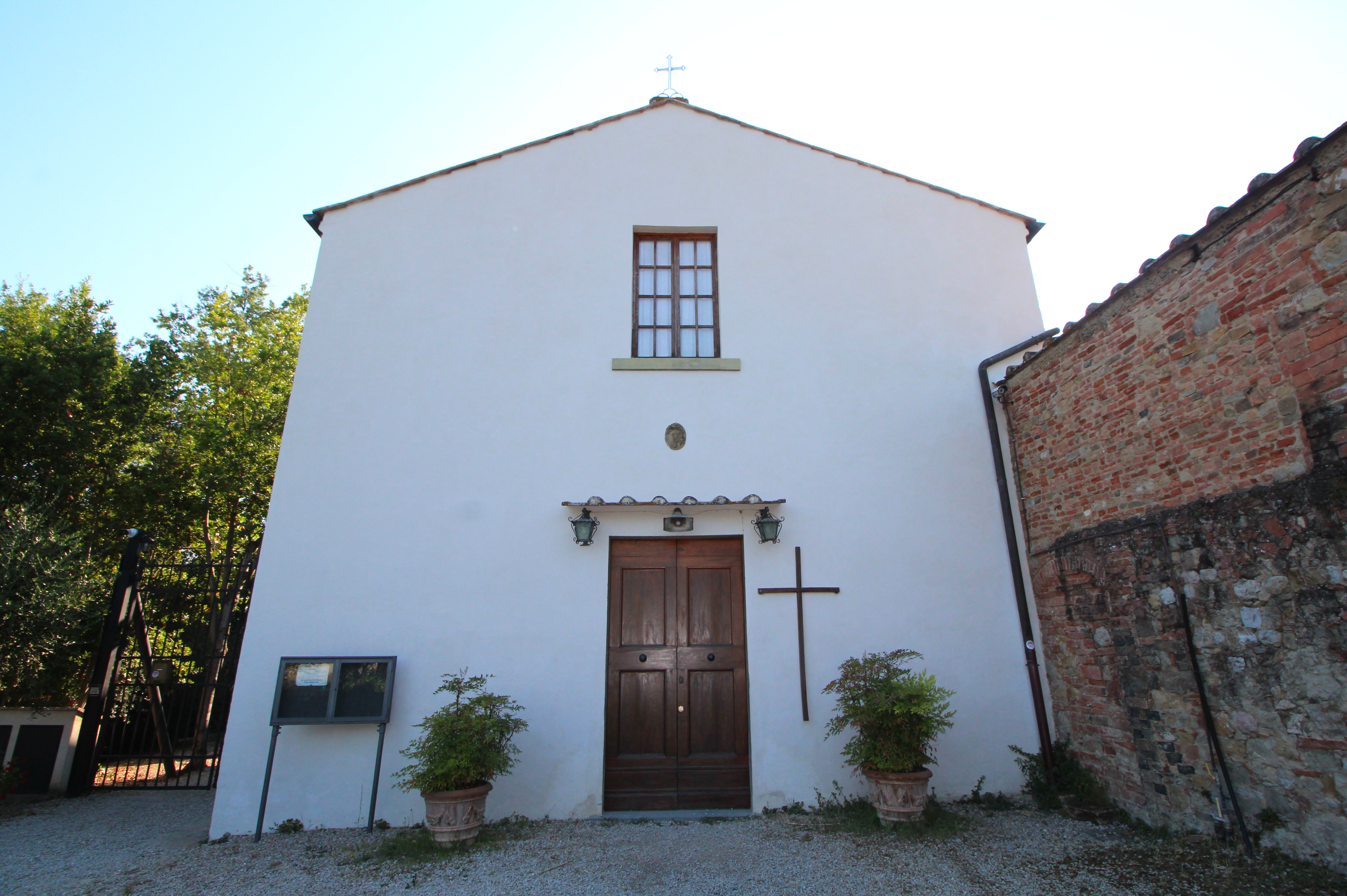 San Pietro a Cerreto (also Badia di San Pietro a Cerreto, Abbazia di San Pietro a Cerreto), Badia a Cerreto, village in the territory of Gambassi Terme, Città metropolitana di Firenze, Tuscany, Italy